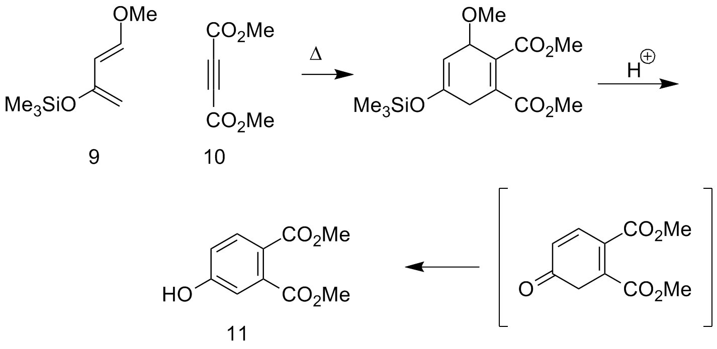 an example of rxn of danishefsky's diene